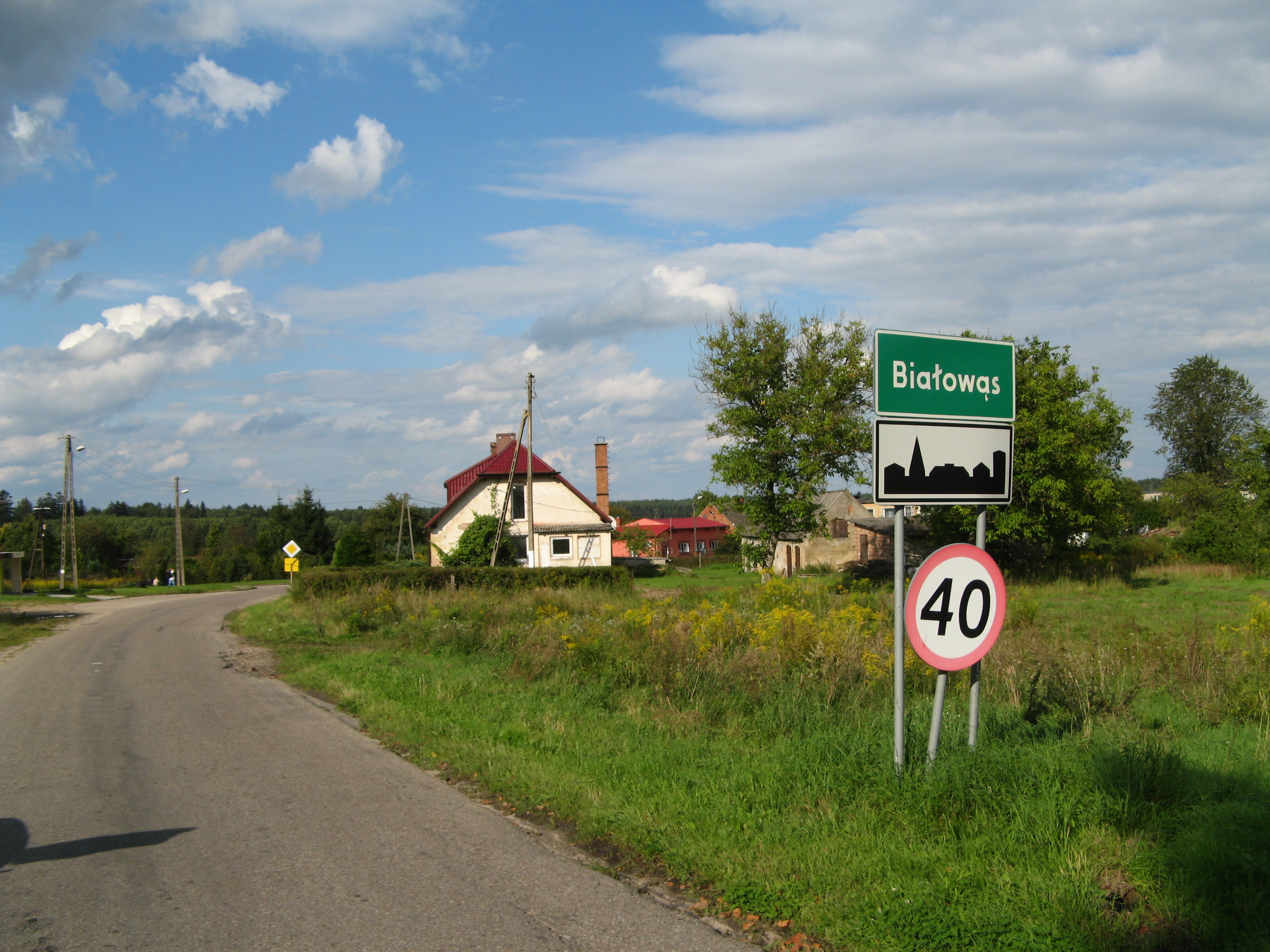 Białowąs, Poland (before 1945 german Balfanz in Pommern)